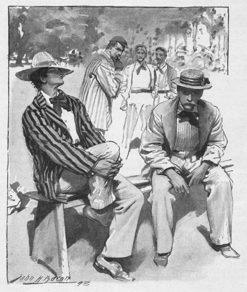 Cassell's illustration for E. W. Hornung's Raffles short story "Gentlemen and Players' illustrated by John H. Bacon